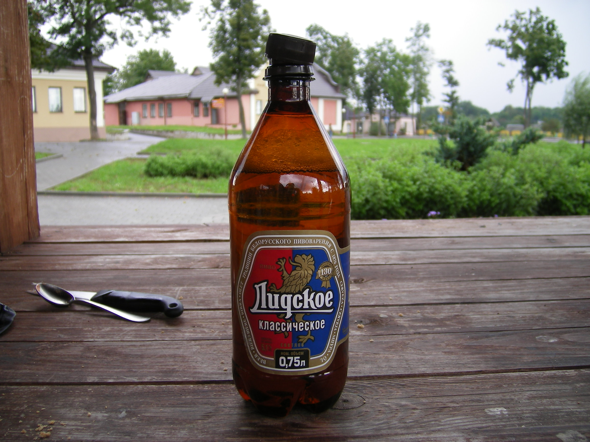 Lidskoye beer (Lida, Belarus)